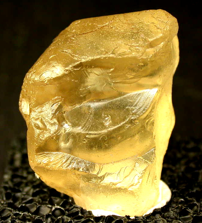 Bytownite Locality: Dorado Mine, Casas Grandes, Chihuahua, Mexico Original description: A 2.5 by 1.9 cms mass. JSS specimen and photo.